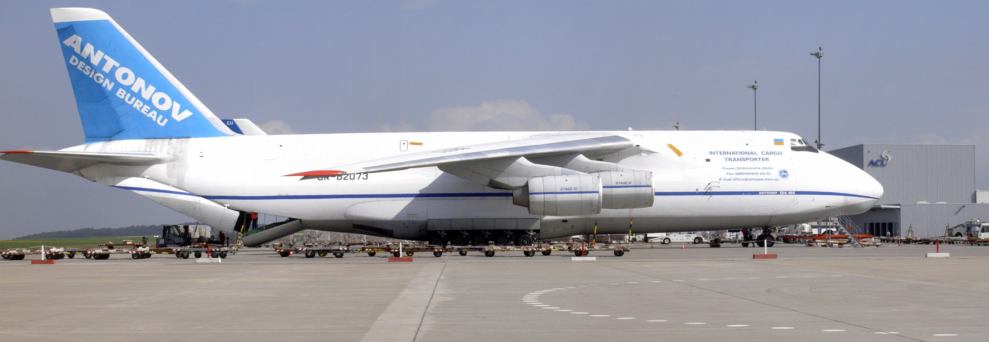 Antonov 124-100 at Frankfurt- Hahn airport, Germany